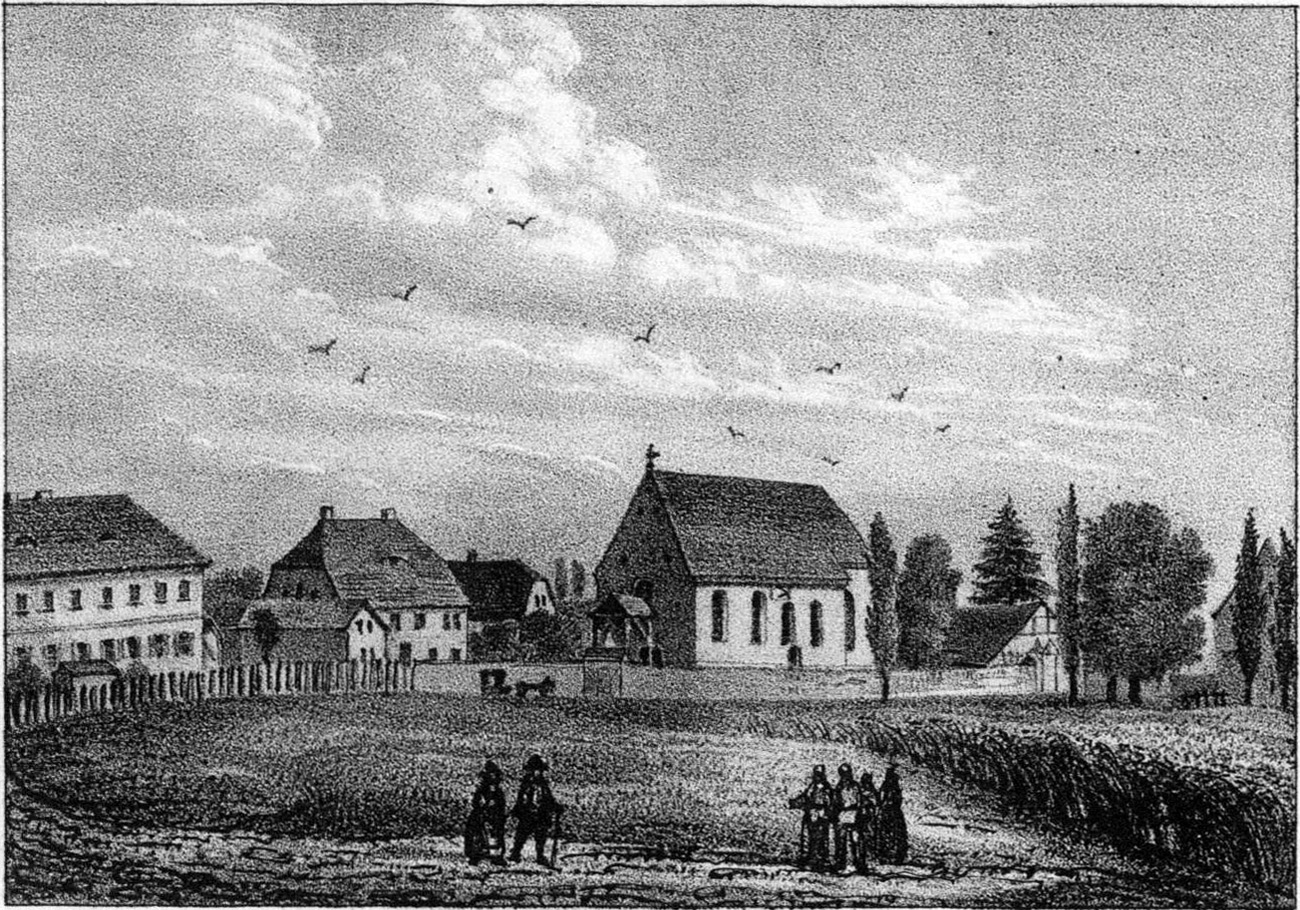 Church in Leipzig-Knauthain